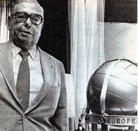 Alberto J. Armando, former president of Boca Juniors, posing with the Intercontinental Cup trophy.